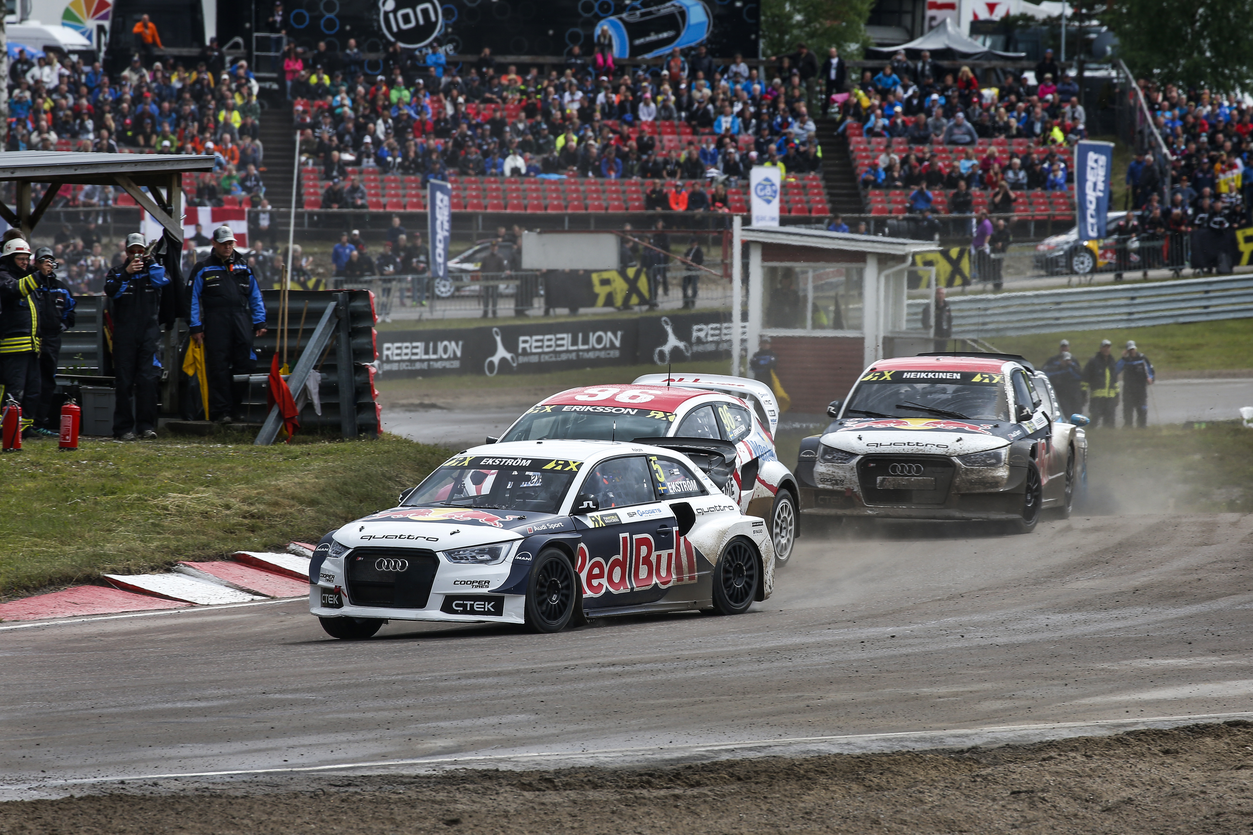 2016 FIA World Rallycross Championship / Round 06, Holjes Sweden 1/7-3/7-2016 // Worldwide Copyright: Tony Welam/EKS/McKlein